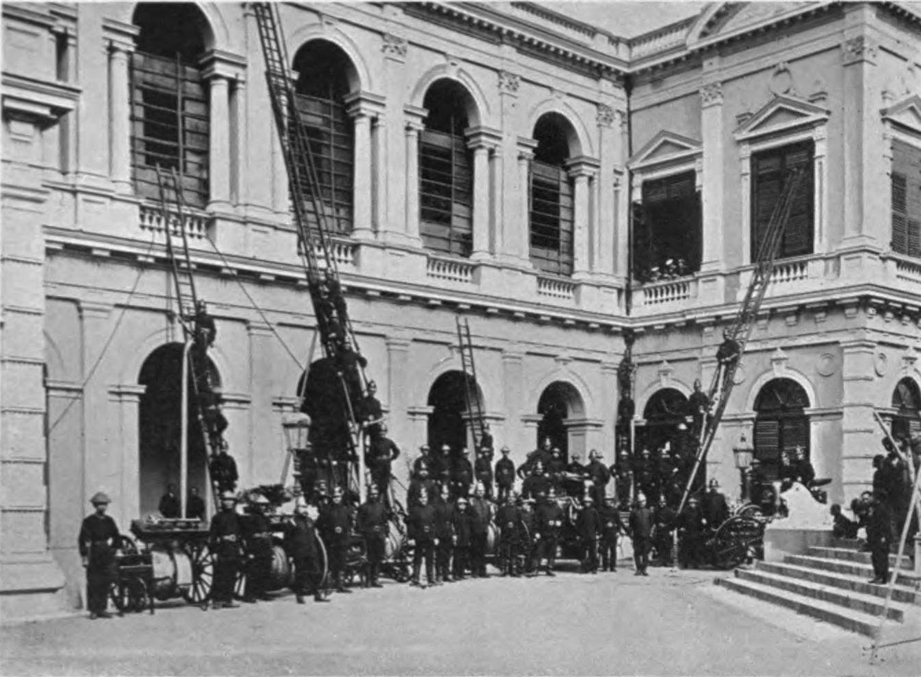 hong kong fire brigade